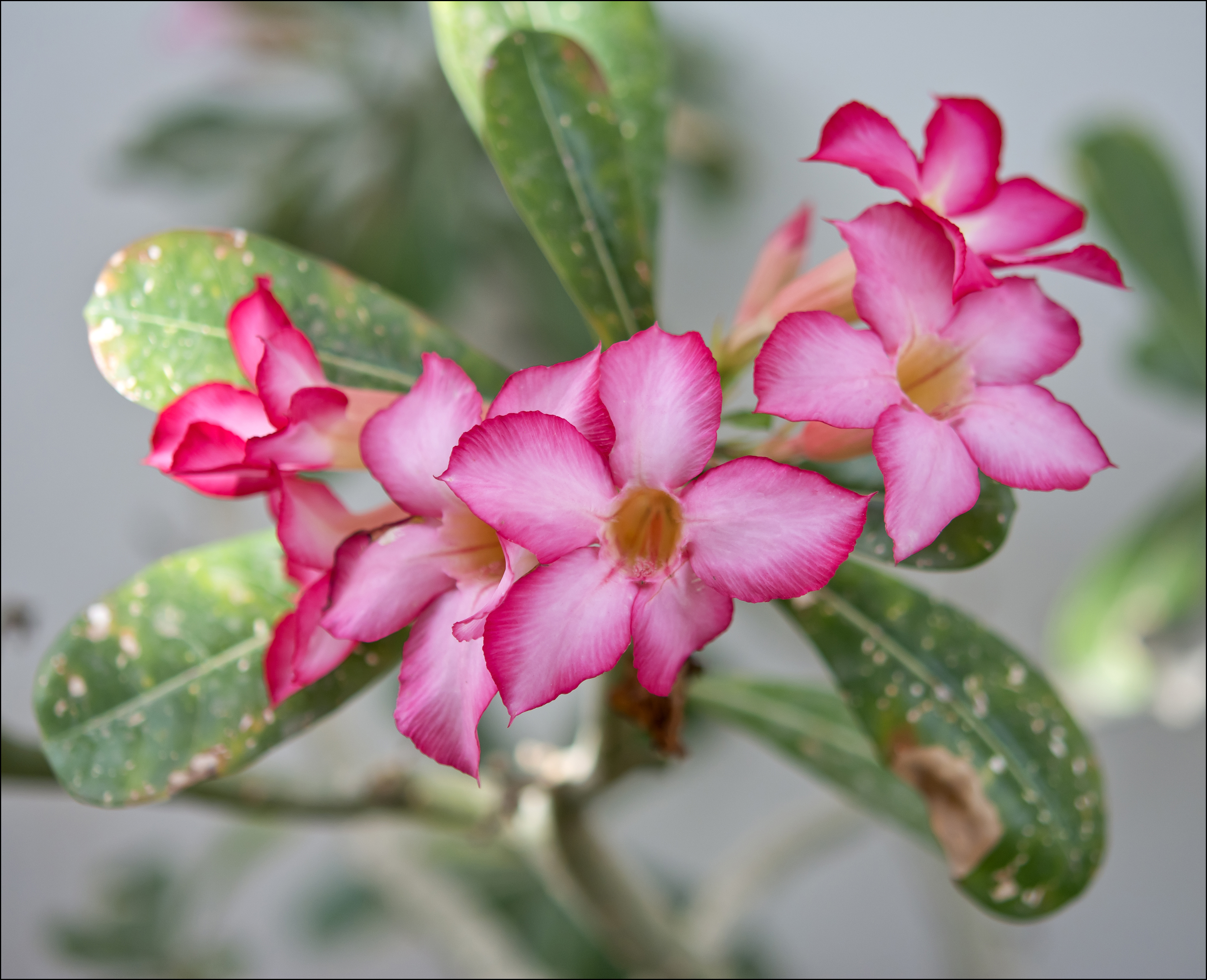 Adenium obesum as a garden flower in Israel